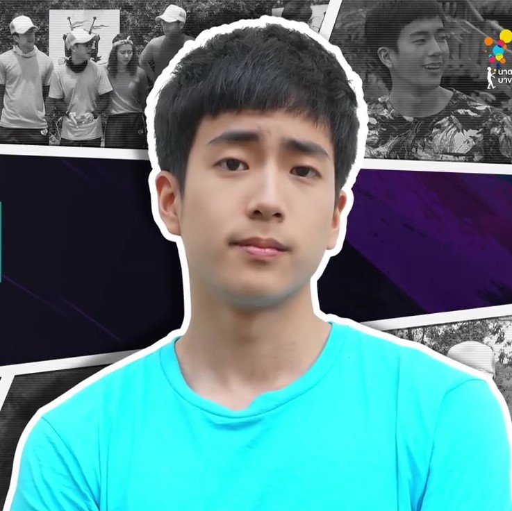 Chanon Santinatornkul, screen capture from promotional video for Game of Teens